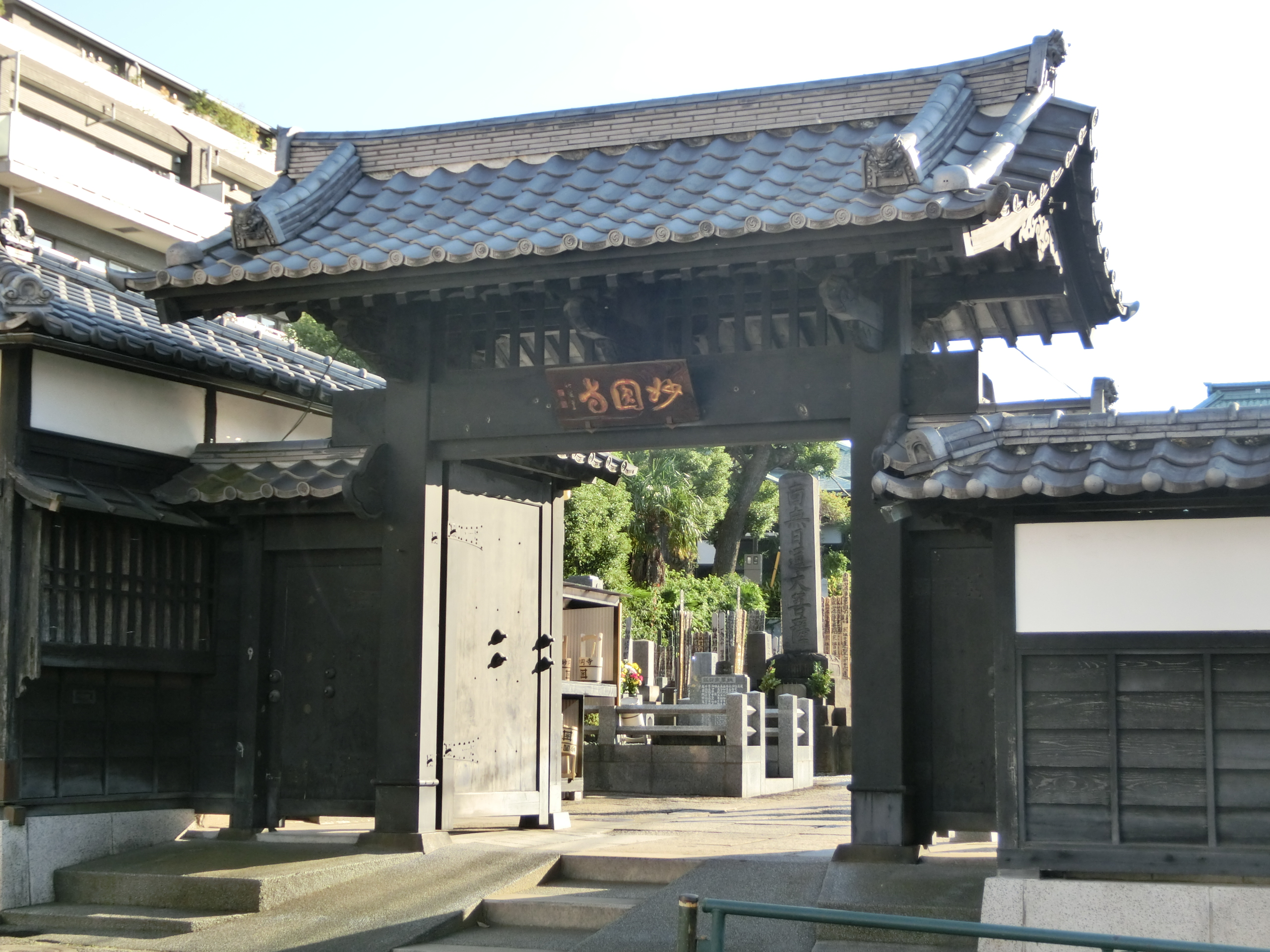 Myoen-ji (Taito)